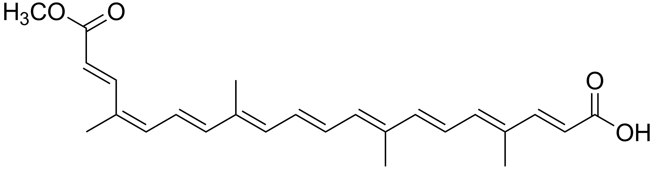 chemical structure of cis-bixin